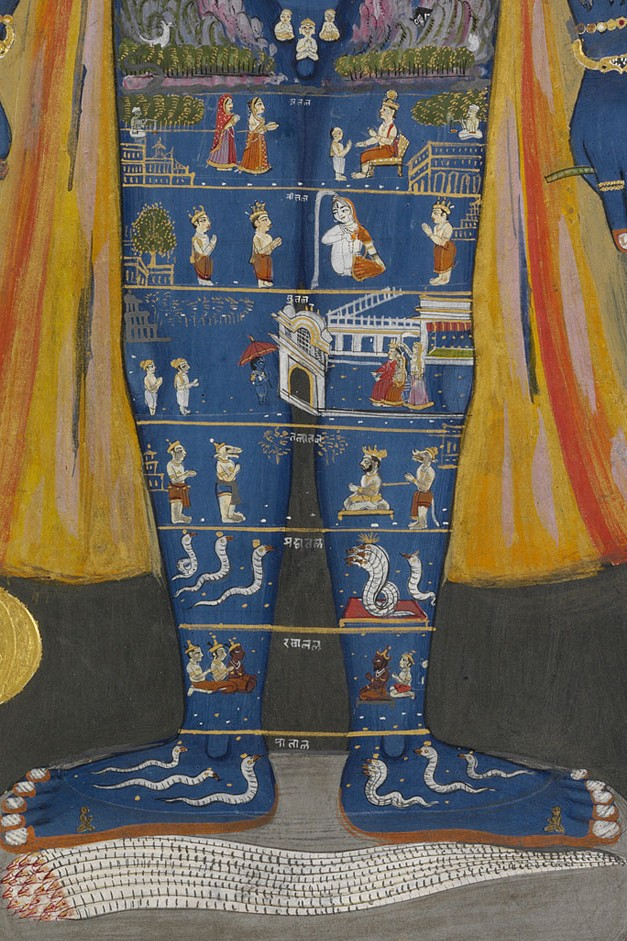 Vishnu Vishvarupa, Victoria and Albert Museum, London